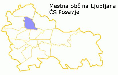 author: Navportus 18:42, 26 June 2007 (UTC) description: Map of Posavje, part of Ljubljana